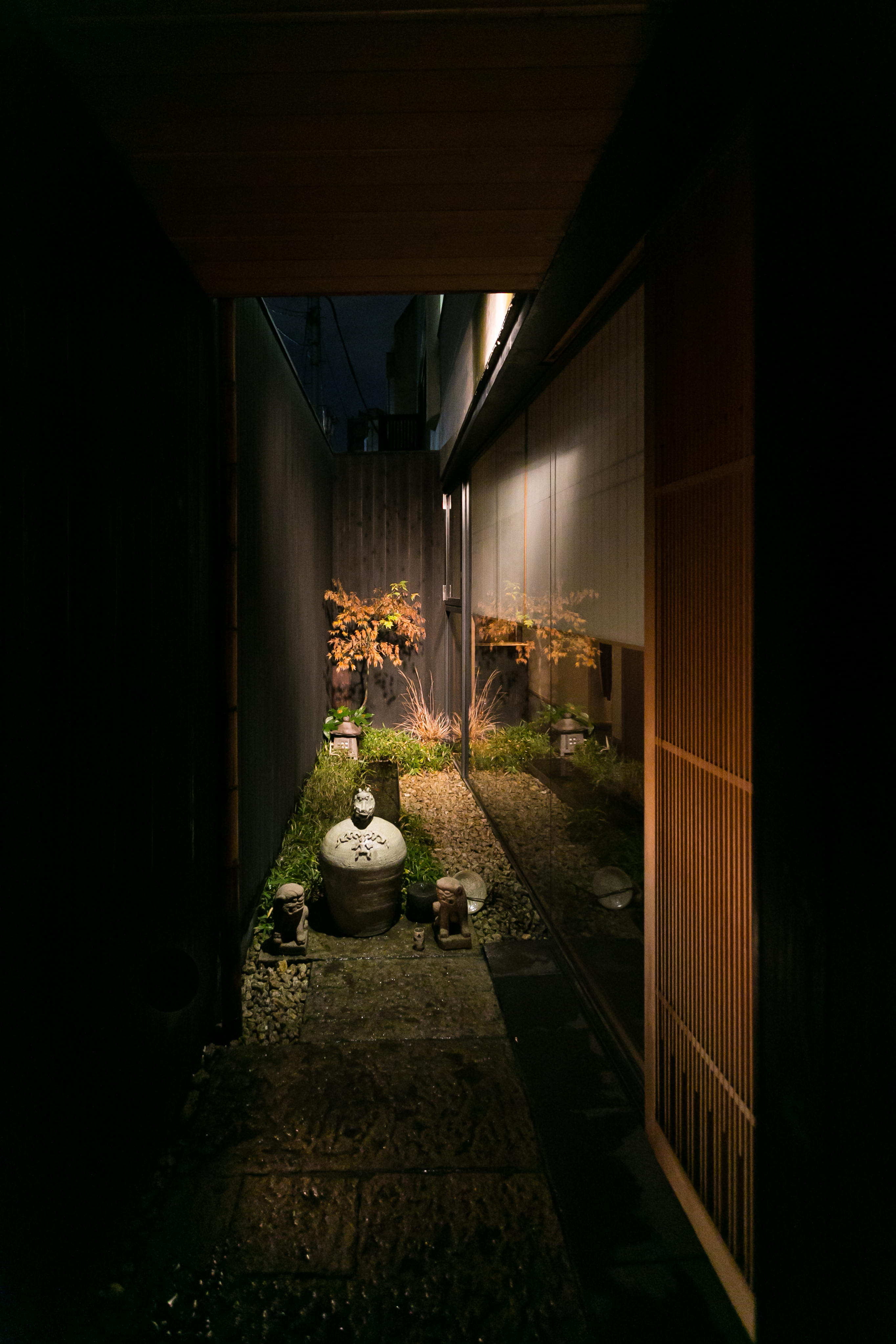 Kagurazaka Ishikawa, Tokyo, JPN Date Visited: December 20, 2013 City Foodsters Facebook | Twitter | Instagram